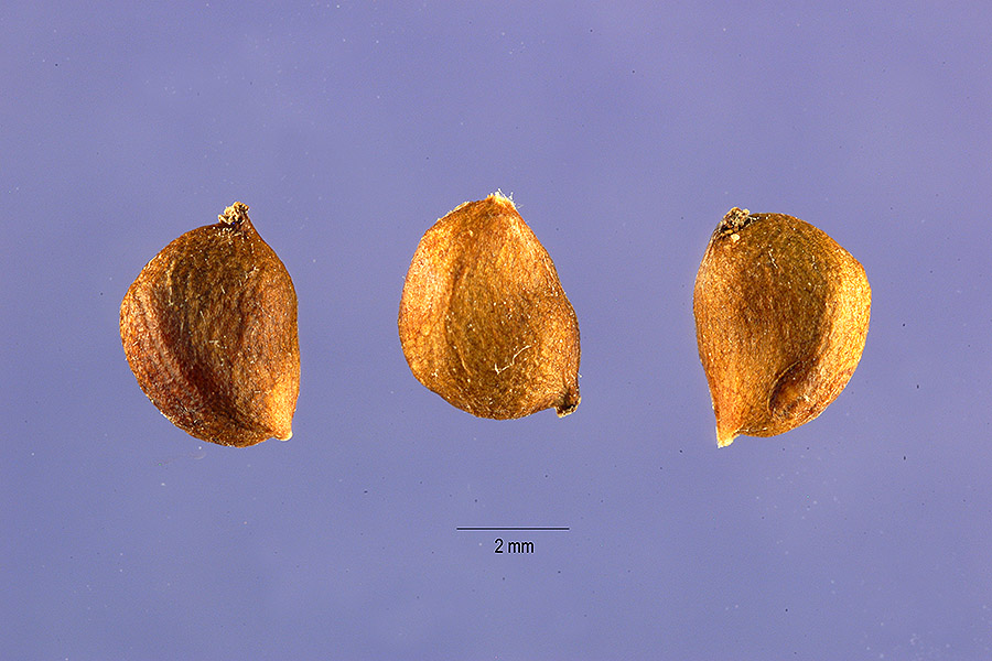 Seeds of Stuckenia pectinata